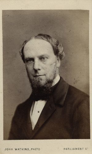 John Wodehouse, 1st Earl of Kimberley (1826-1902)